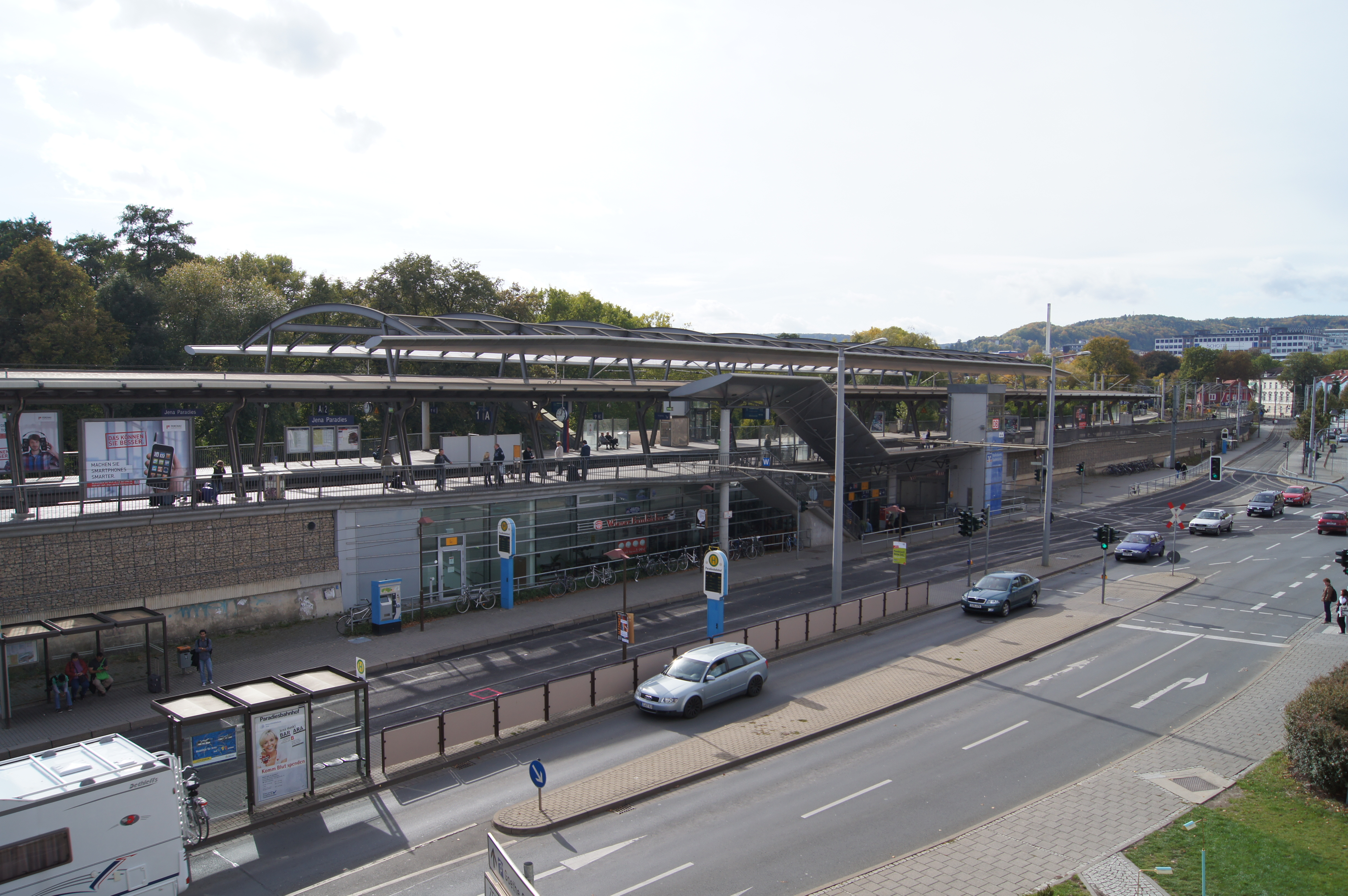 Railway station Jena Paradies in Jena, Thuringia, Germany